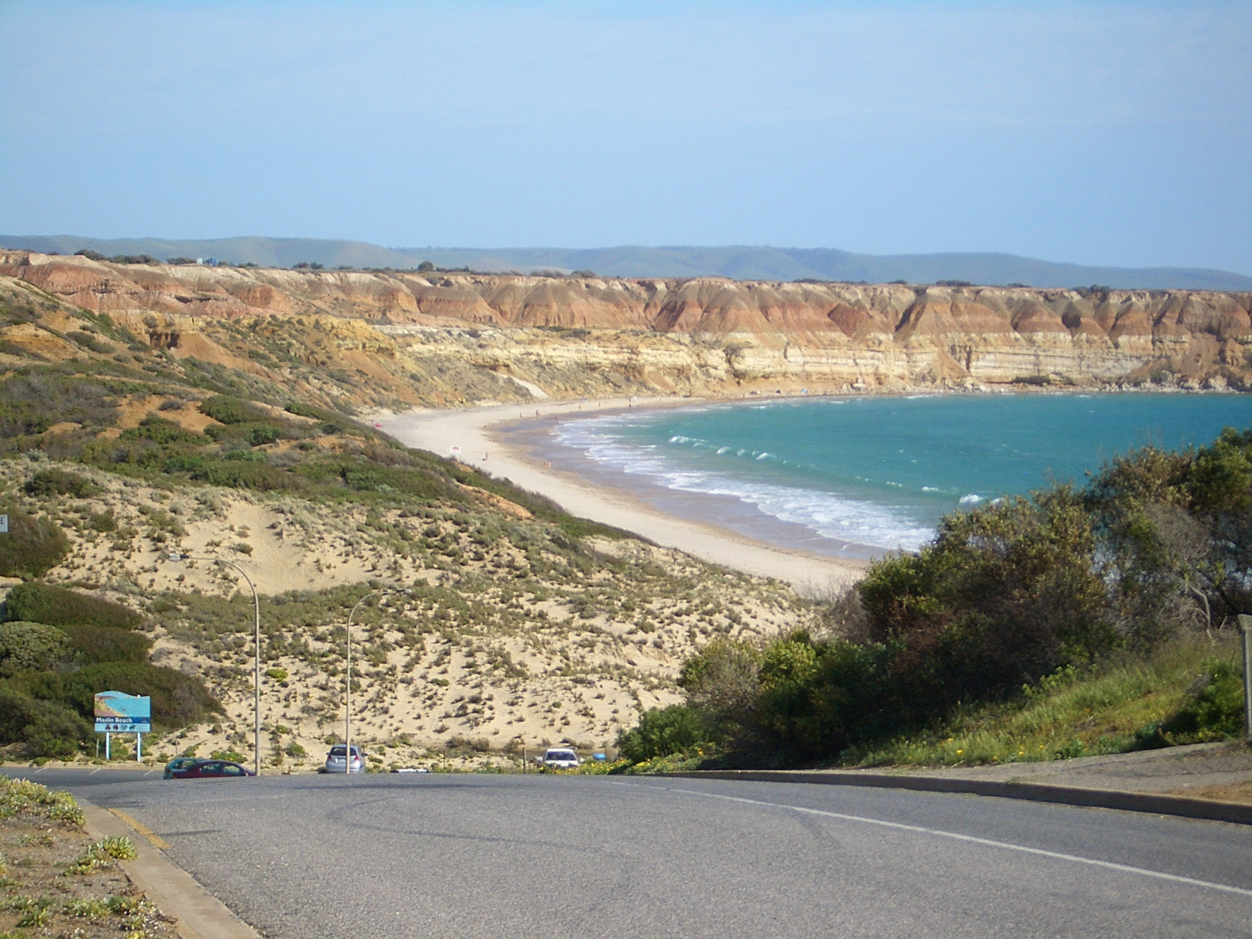 Maslin Beach in late September